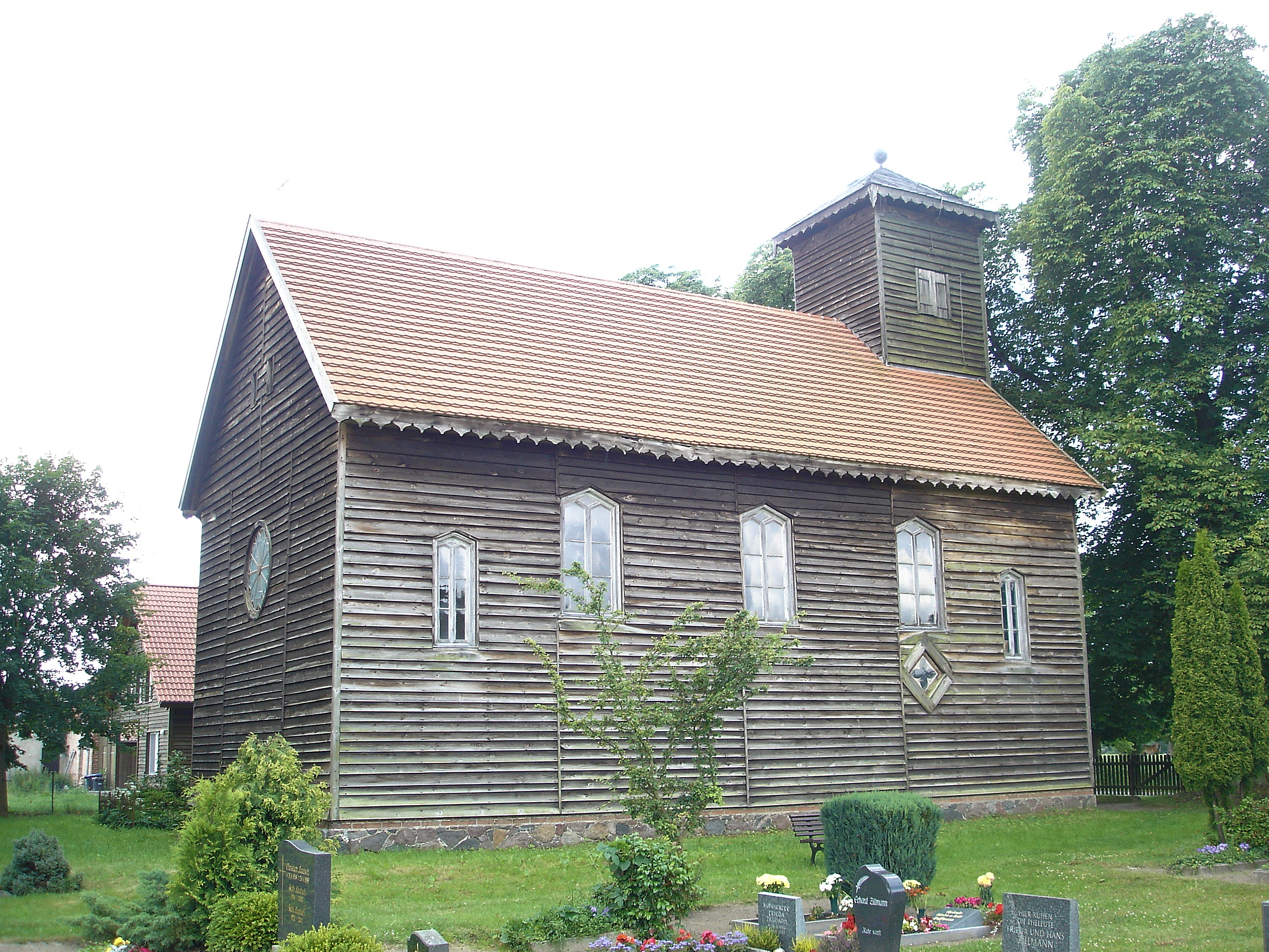 Church in Alt Gaarz, Mecklenburg, Germany